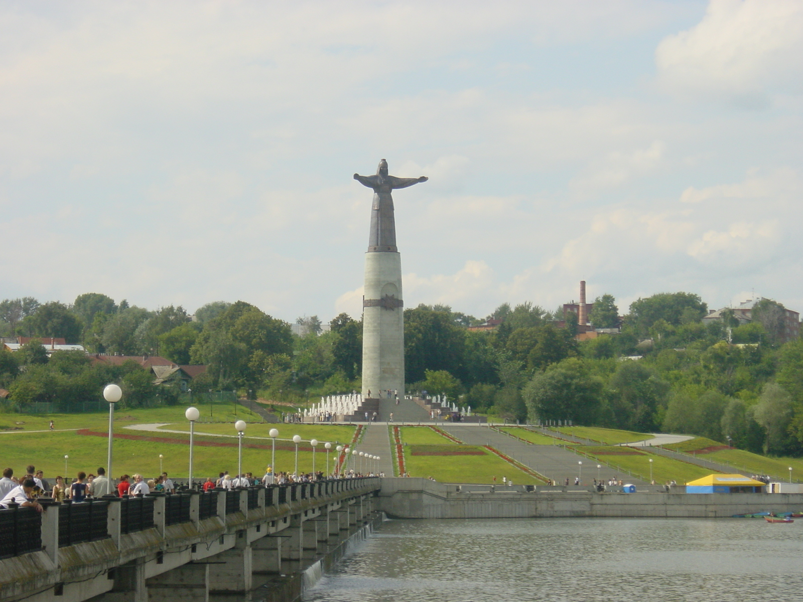 Area by the artificial gulf (of Volga) in the city of Cheboksary.